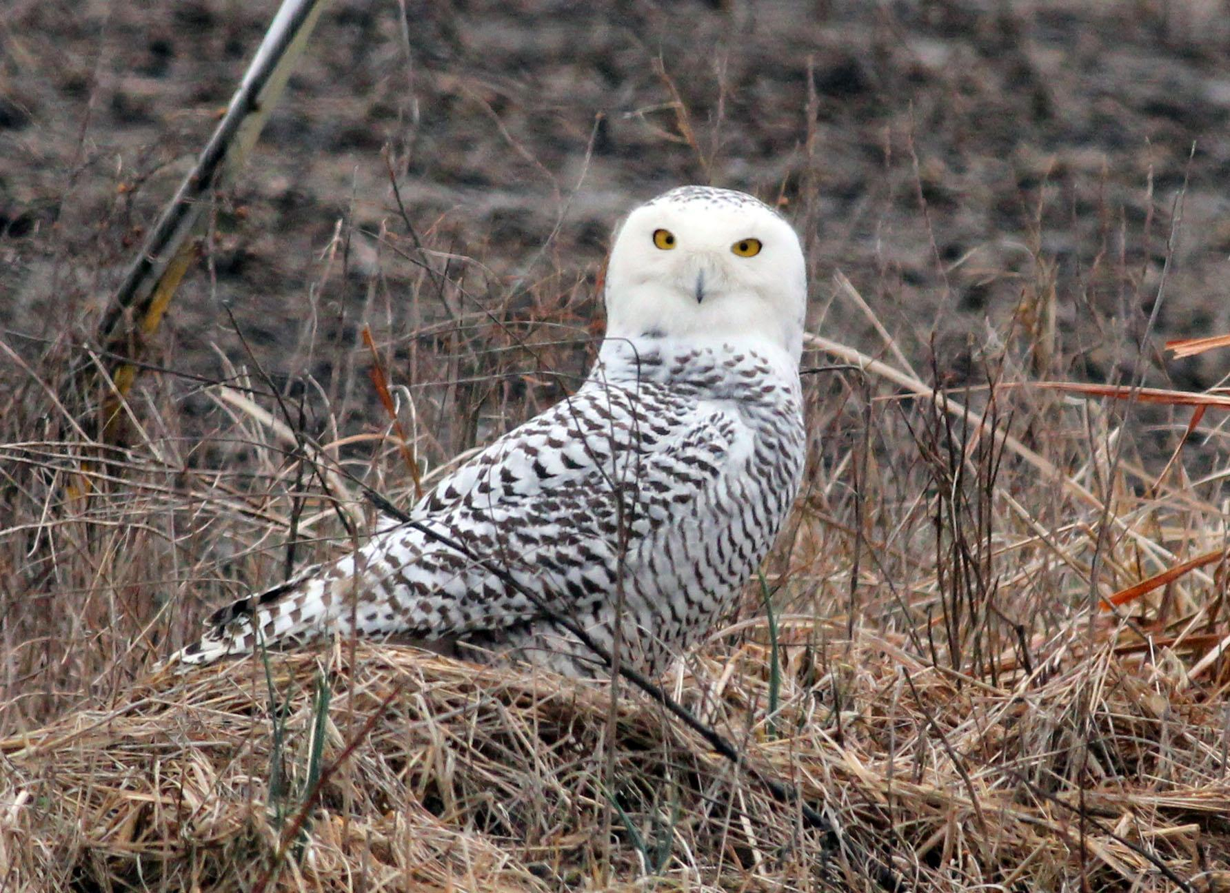 Snowy Owl Bubo scandiacus. In a major Snowy Owl irruption, these arctic owls have been overwintering at refuges across the lower 48 states, from Siletz Bay National Wildlife Refuge in OR to Parker River National Wildlife Refuge in MA. This male was photographed near Cypress Creek National Wildlife Refuge on 27 Jan 2012. Photo: John Schwegman.